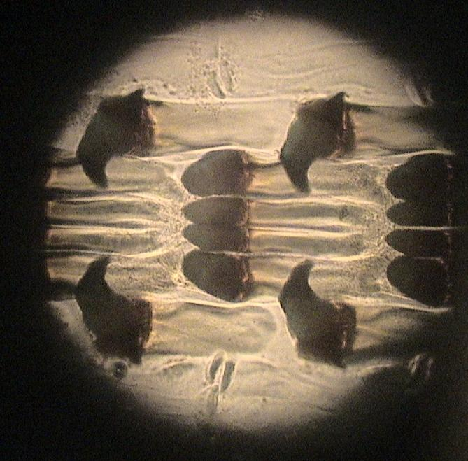 Radula of the archaeogastropod genus Patella seen under binocular microscope.